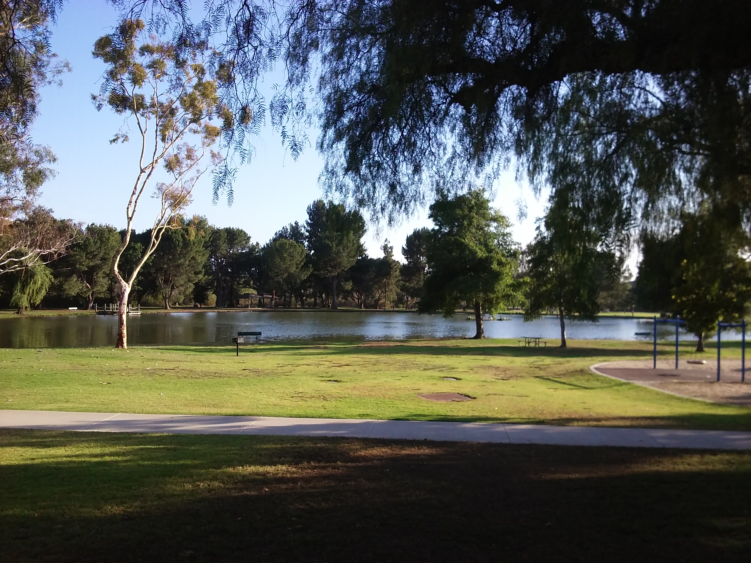 This is a picture that I took of the lake at the Carbon Canyon Regional Park in Brea, California.